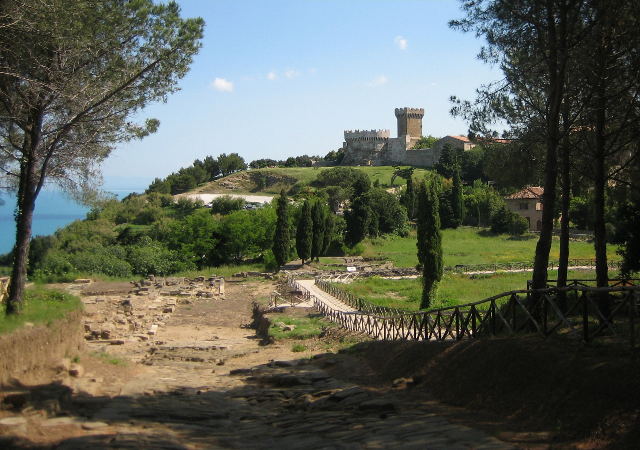 Main street of the etruscan acropolis and view of the fortifications of Populonia in tuscany in Italy.